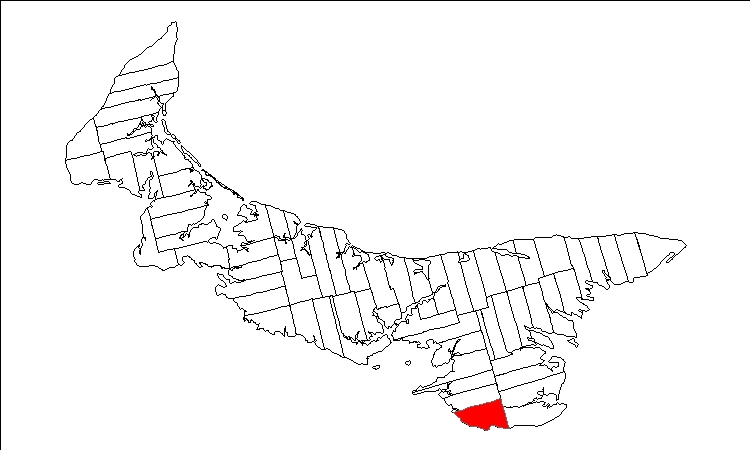 Public domain map of Prince Edward Island created by User:Plasma east with data courtesy of Geogratis, modified to show townships. Released under GFDL (self).